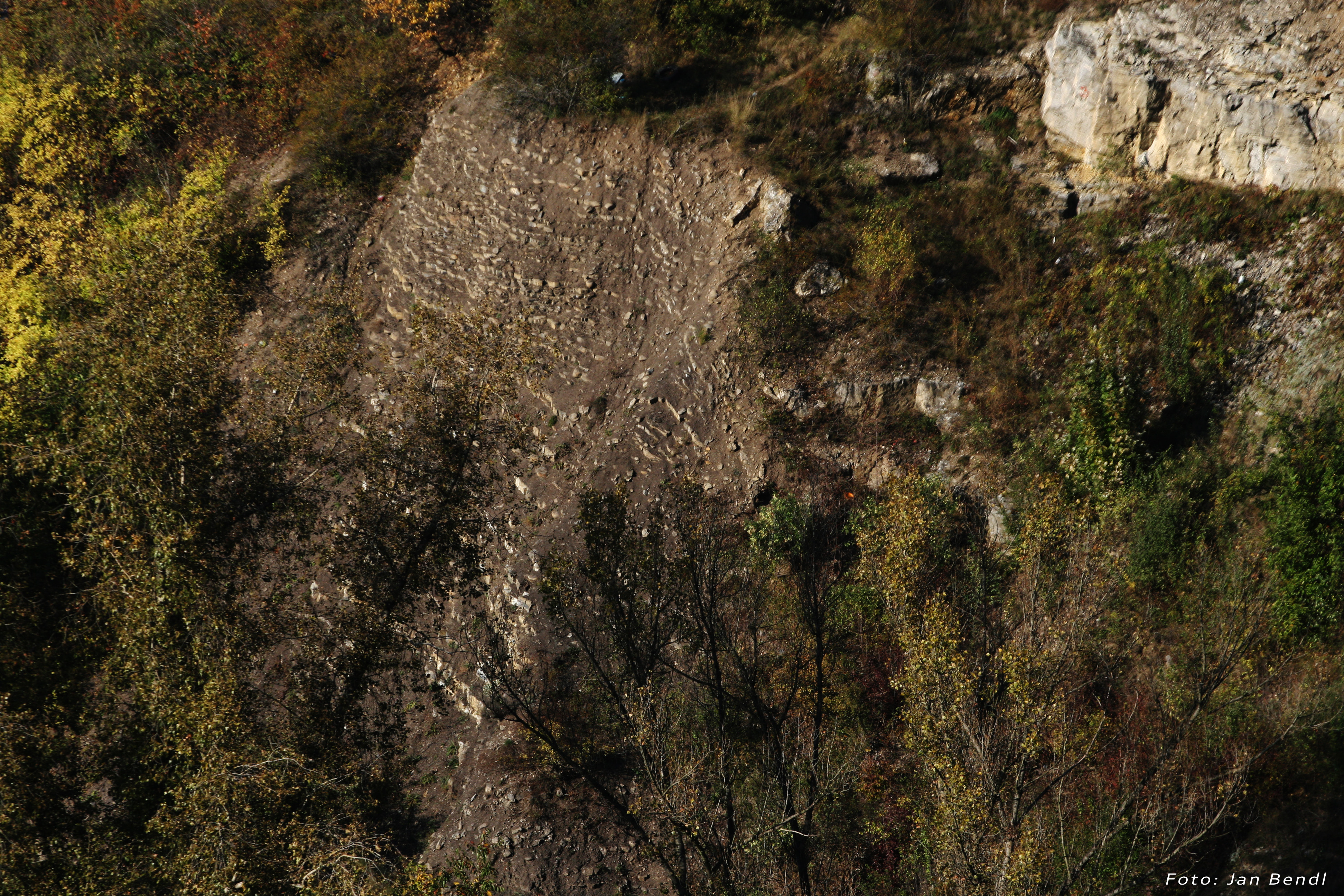 Natural monument Podolský profil in Prague, Czech Republic